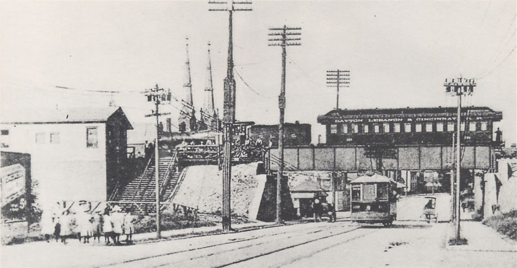 Dayton, Lebanon and Cincinnati Railroad (CL&N predecessor) train at Washington Street (Dayton), 1912.